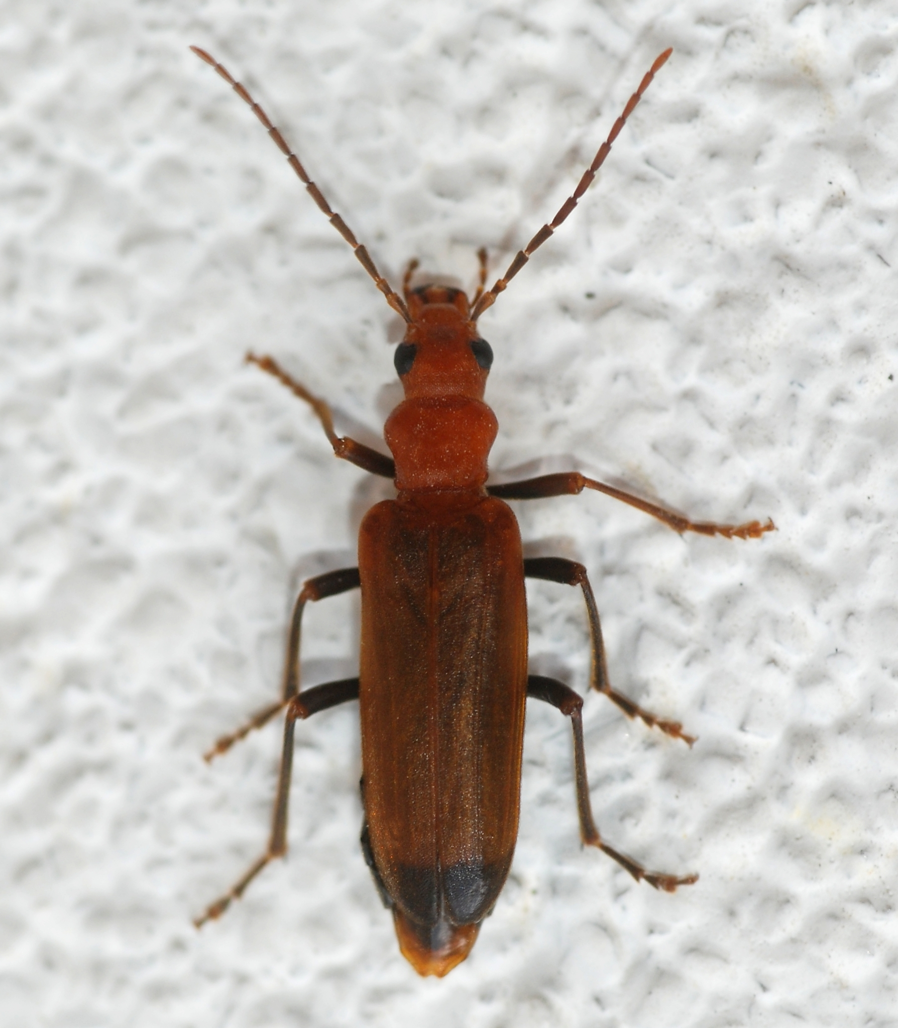 A Wharf Borer